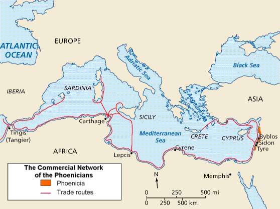 Phoenician trade routes. The cities in North Africa and Southern Europe represent the extent of the Phoenician sphere of influence, from their base in North Palestine.